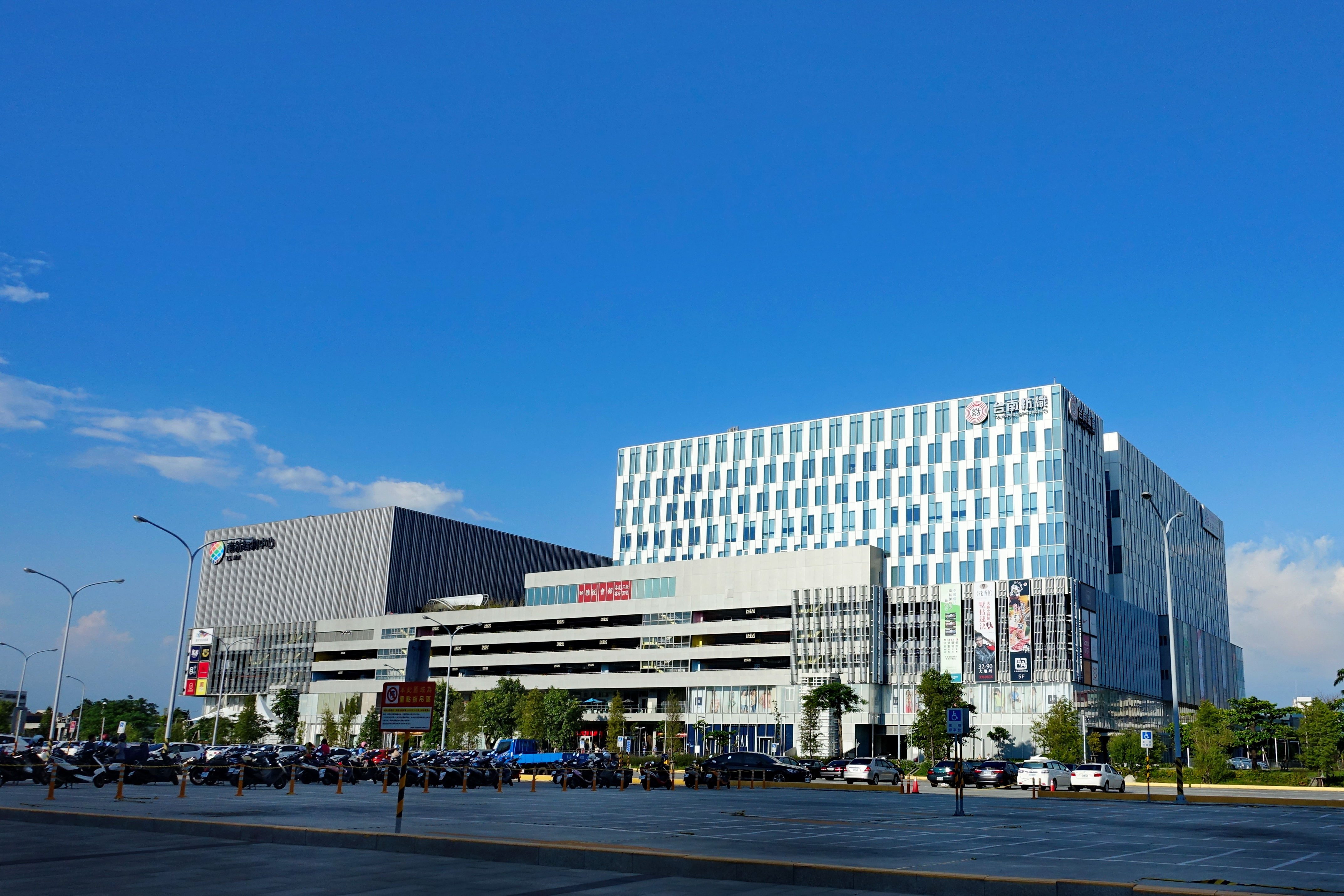 T.S. Mall, Tainan City, Taiwan.